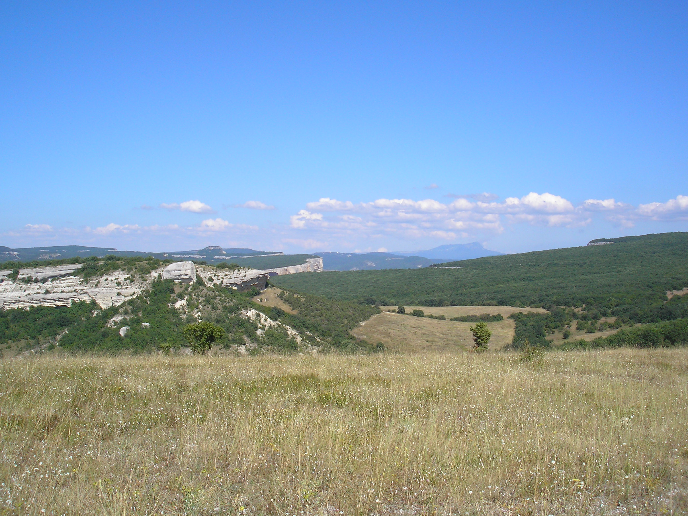 Second ridge of Crimean Mountains. In the background - Chater Doug.